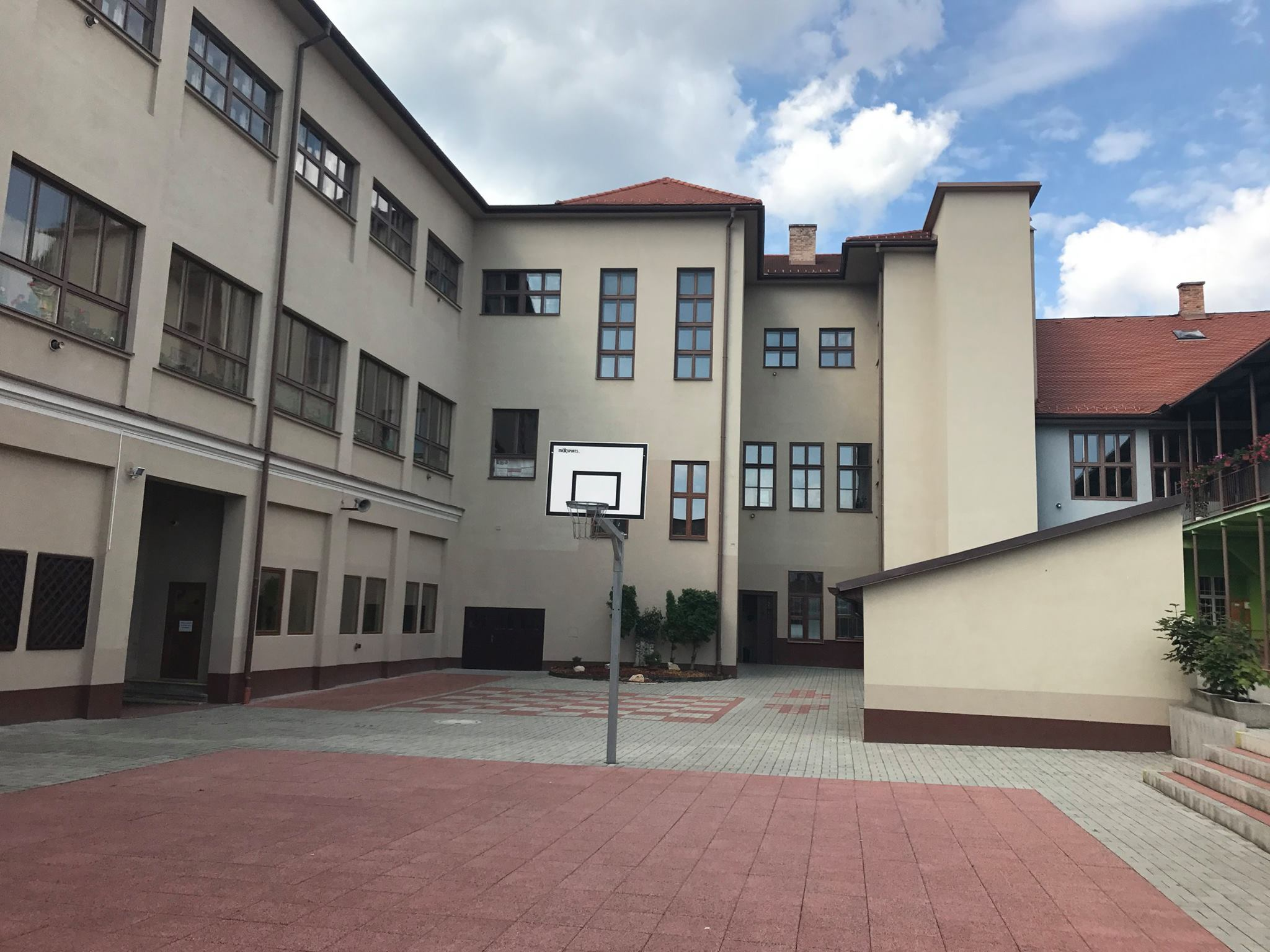 SZŠ s MŠ DSA Lučenec